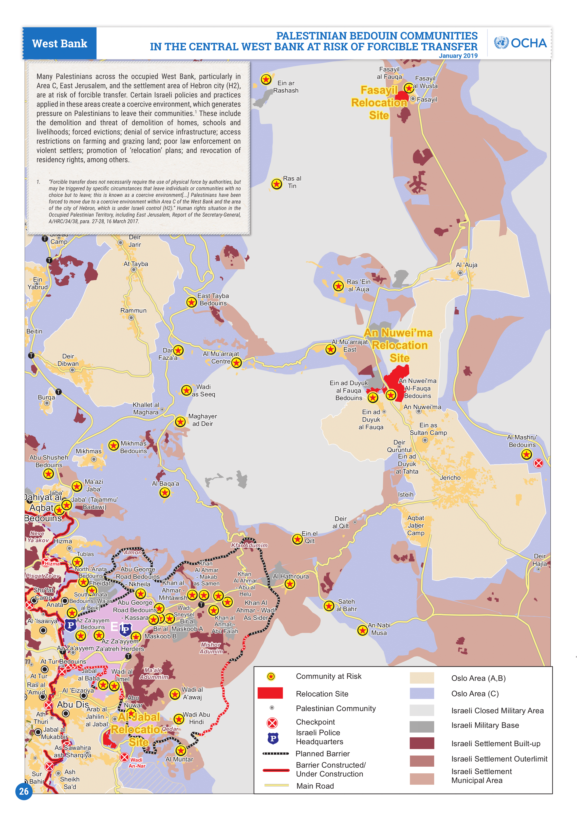 Palestinian bedouin communities in the central west bank at risk of forcible transfer January 2019